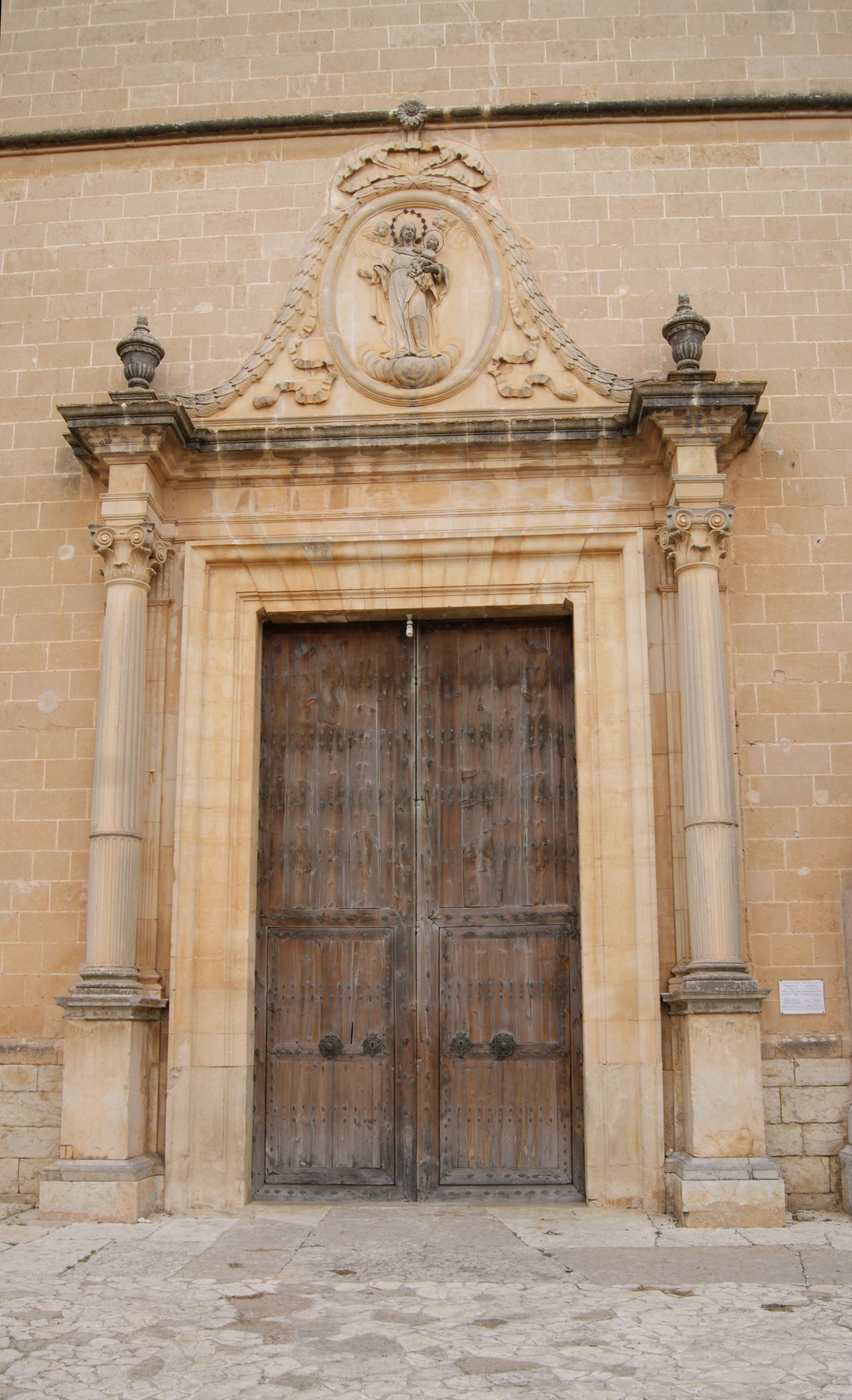 Porreres in Mallorca. Parishchurch Nostra Senyora de la Consolació. Mainentrance.